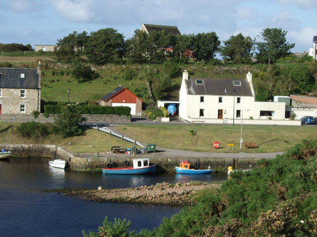 Harbour Road, Brora From Golf Road.